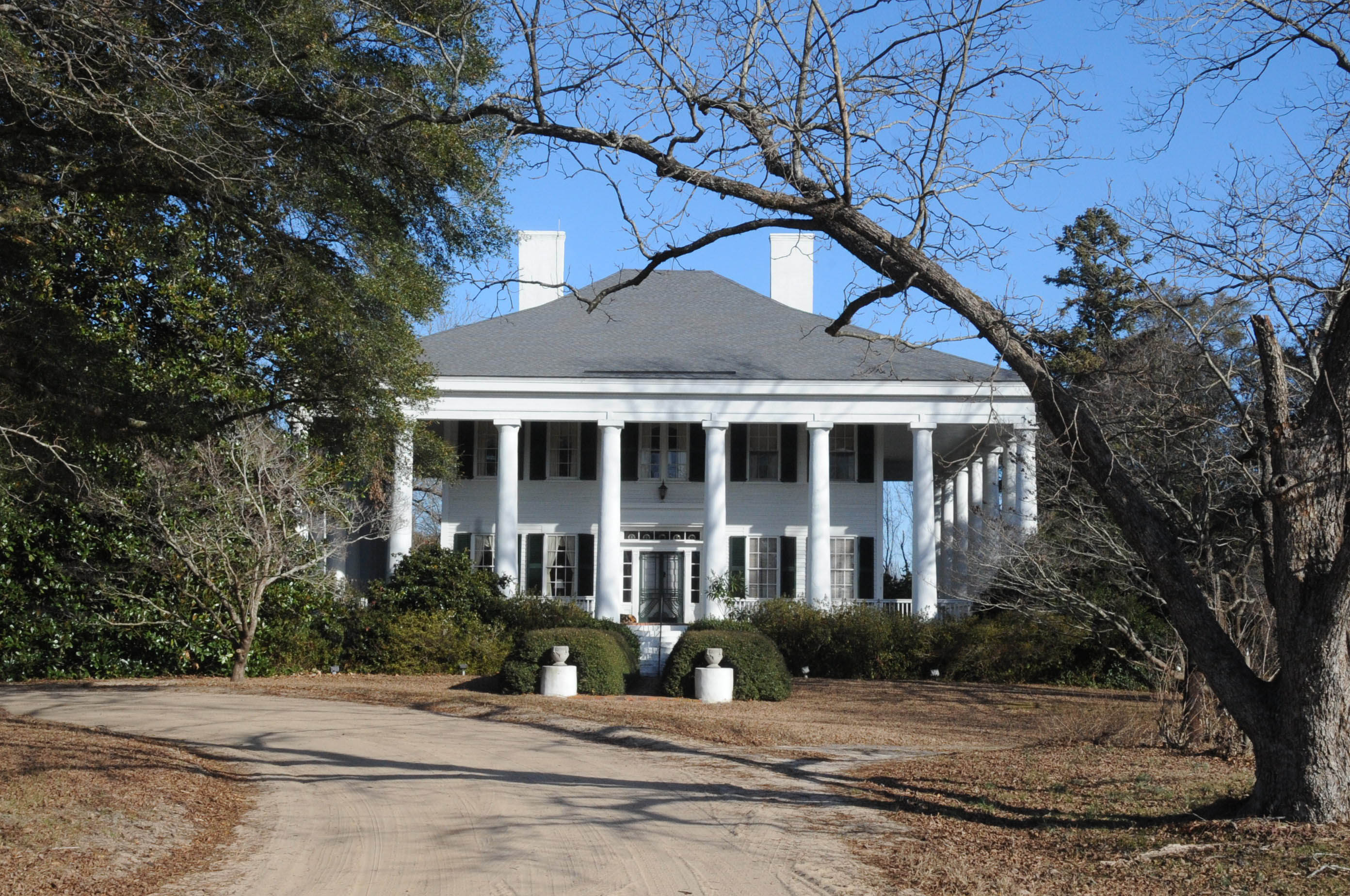 AKA THE COLUMNS BUILT C1854 AS A GREEK REVIVAL HOUSE WITH 22 GIANT FREESTANDING DORIC COLUMNS